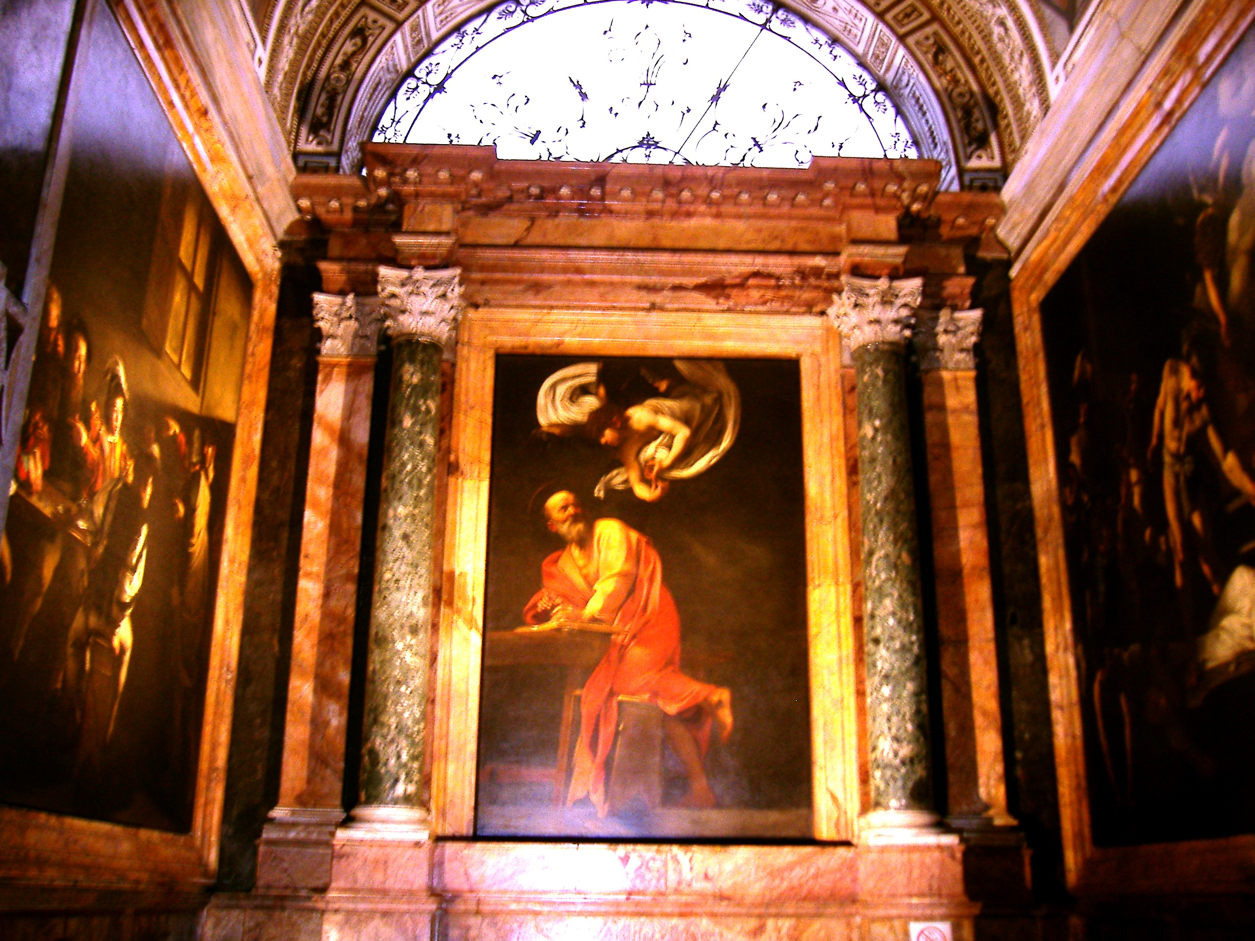 the Contarelli chapel with the three works by Caravaggio